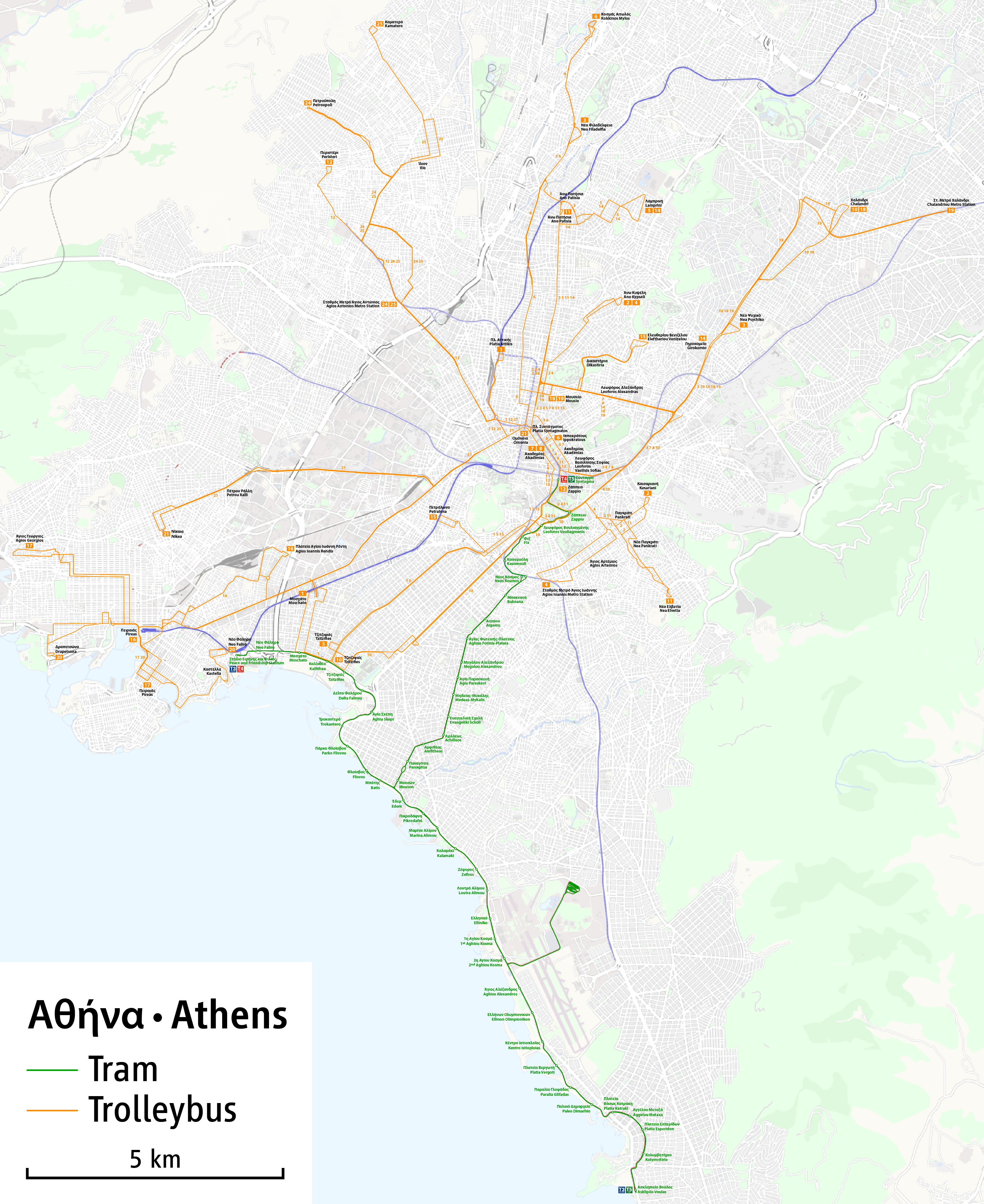 Map of the tramway and trolleybus networks of Athens